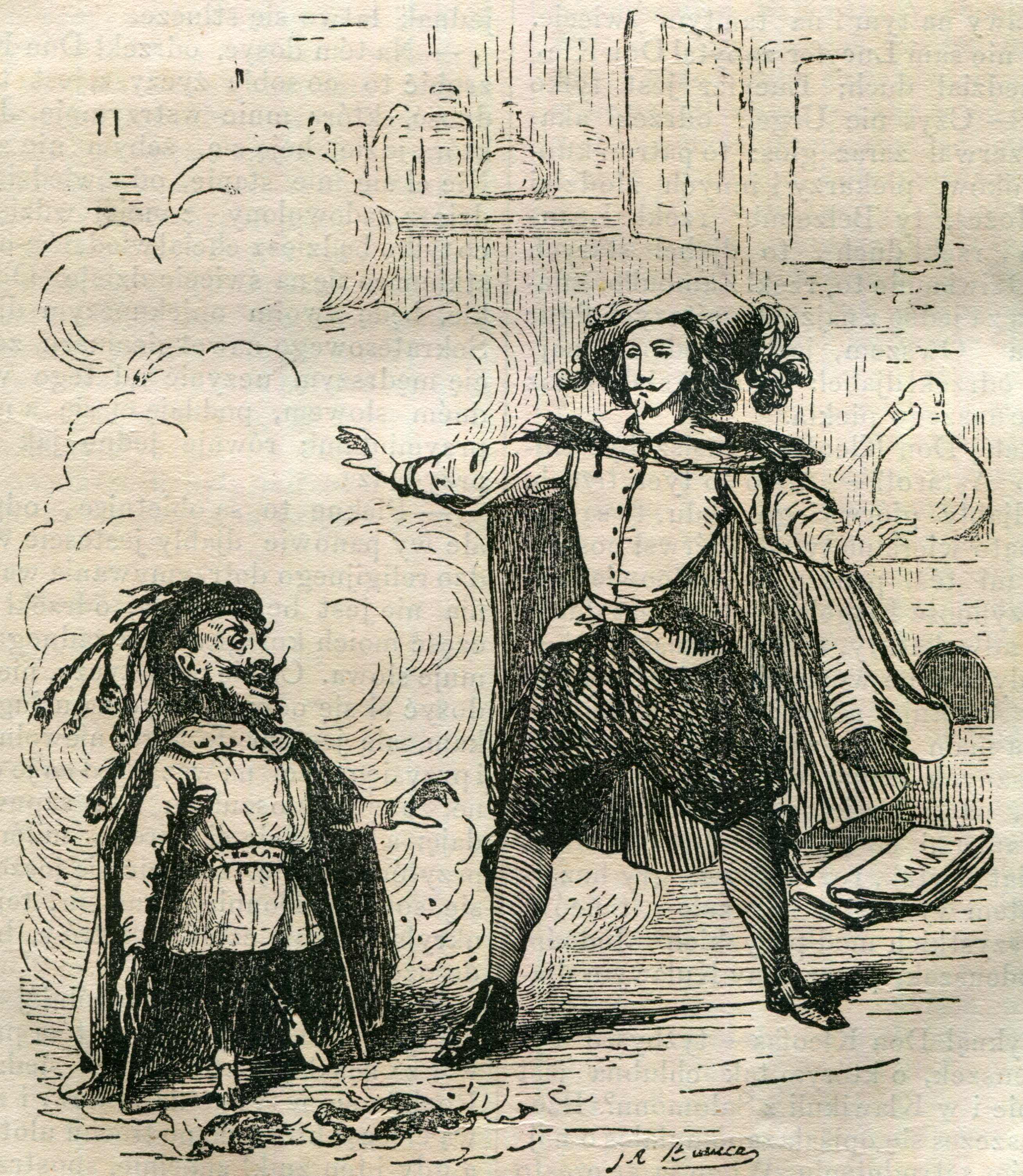 Illustration to the novel Le Diable boiteux by Lesage: Asmodeus makes his appearance to Don Cleophas